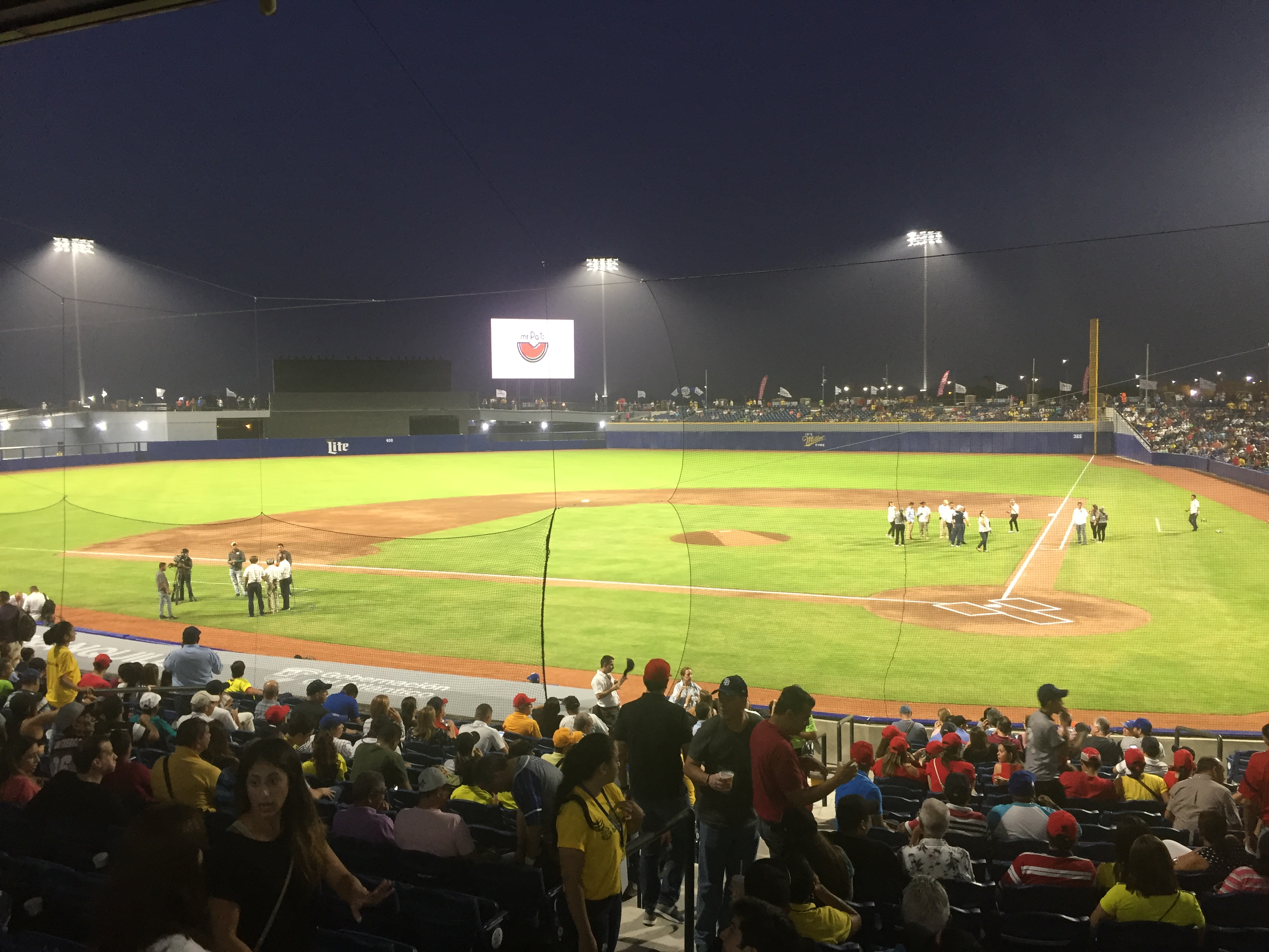 Edgar Renteria stadium Backstop